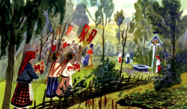 Yuriy Pavlovych (1874-1947). Makovija (Makoviya,Makoveya). Crucession to well (Christian procession to water well)